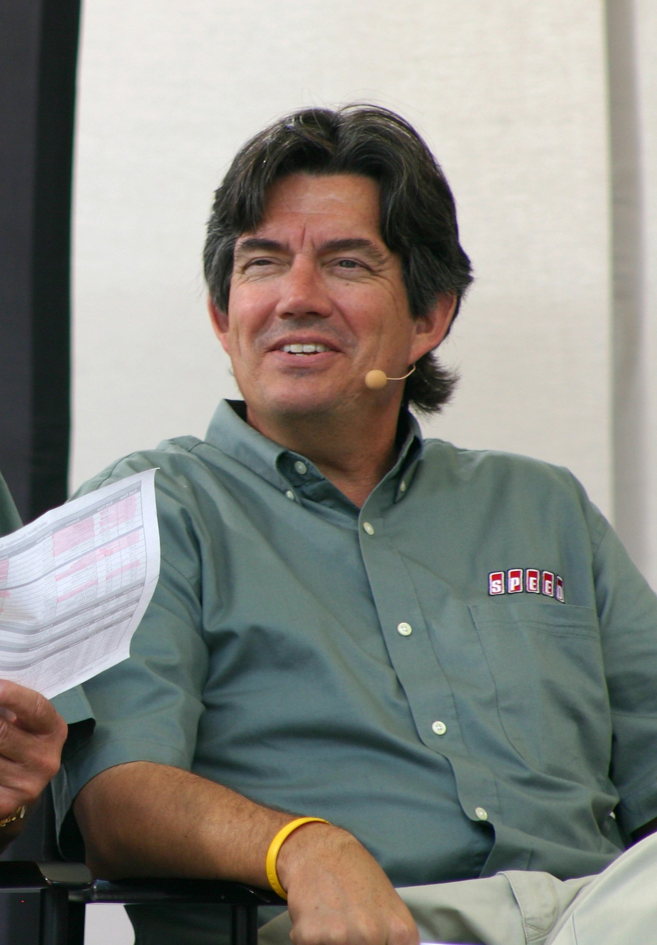 SPEED TV announcer Bob Varsha at the Indianapolis Motor Speedway for the United States Grand Prix, 6/29/2006, Rick Dikeman